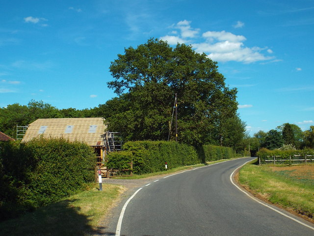 Banks Lane, Colliers Hatch, near Epping